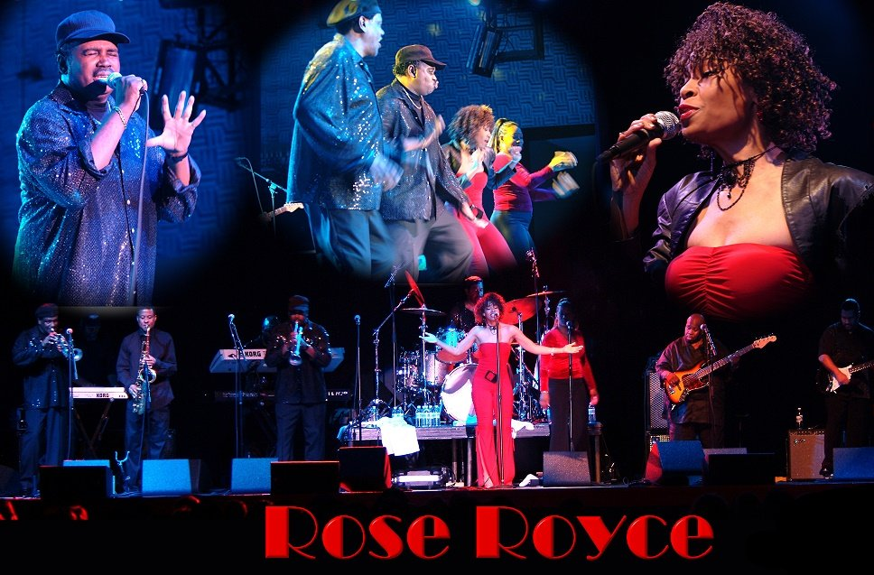 Rose Royce in concert at the Chumash Casino Resort in Santa Ynez.